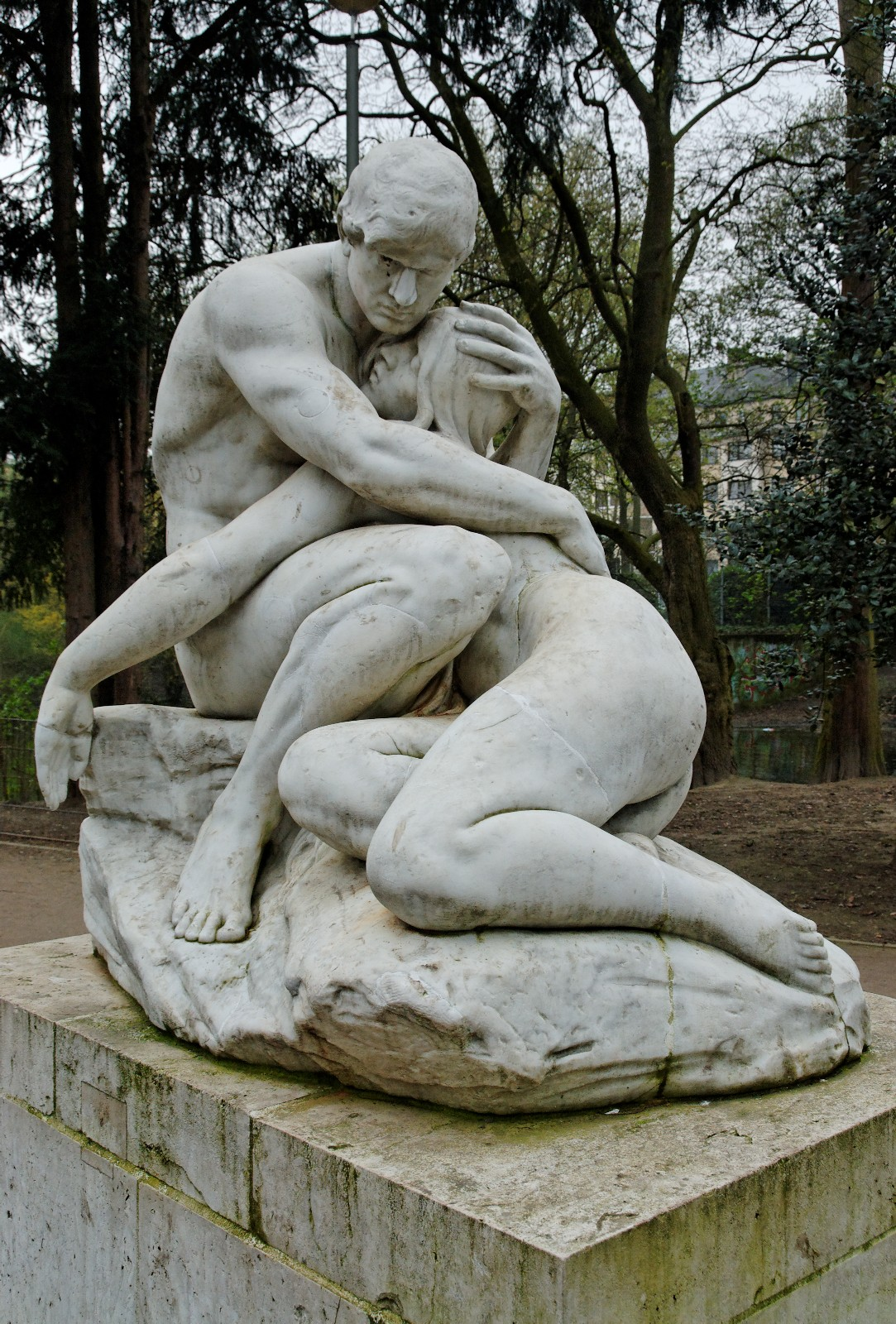 "Adam and Eve" (1894) in the Flora Park in Duesseldorf-Unterbilk, Germany (In 1954 restored by Rudolf Christian Baisch and Hermann Isenmann)